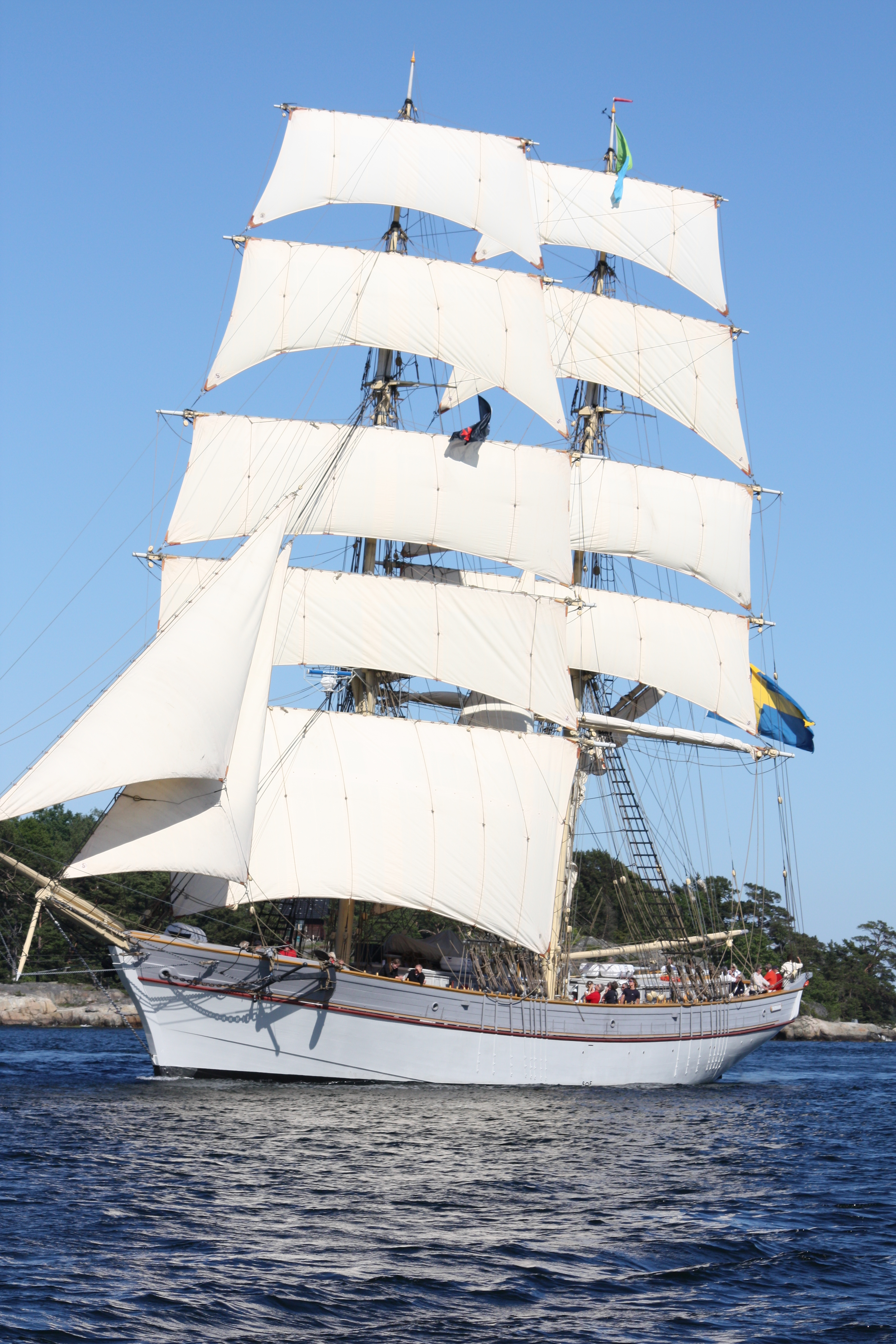 Tre kronor af Stockholm aka Stockholmsbriggen is leaving Sandhamn (Stockholm) during Volvo Ocean Race, Leg 10.